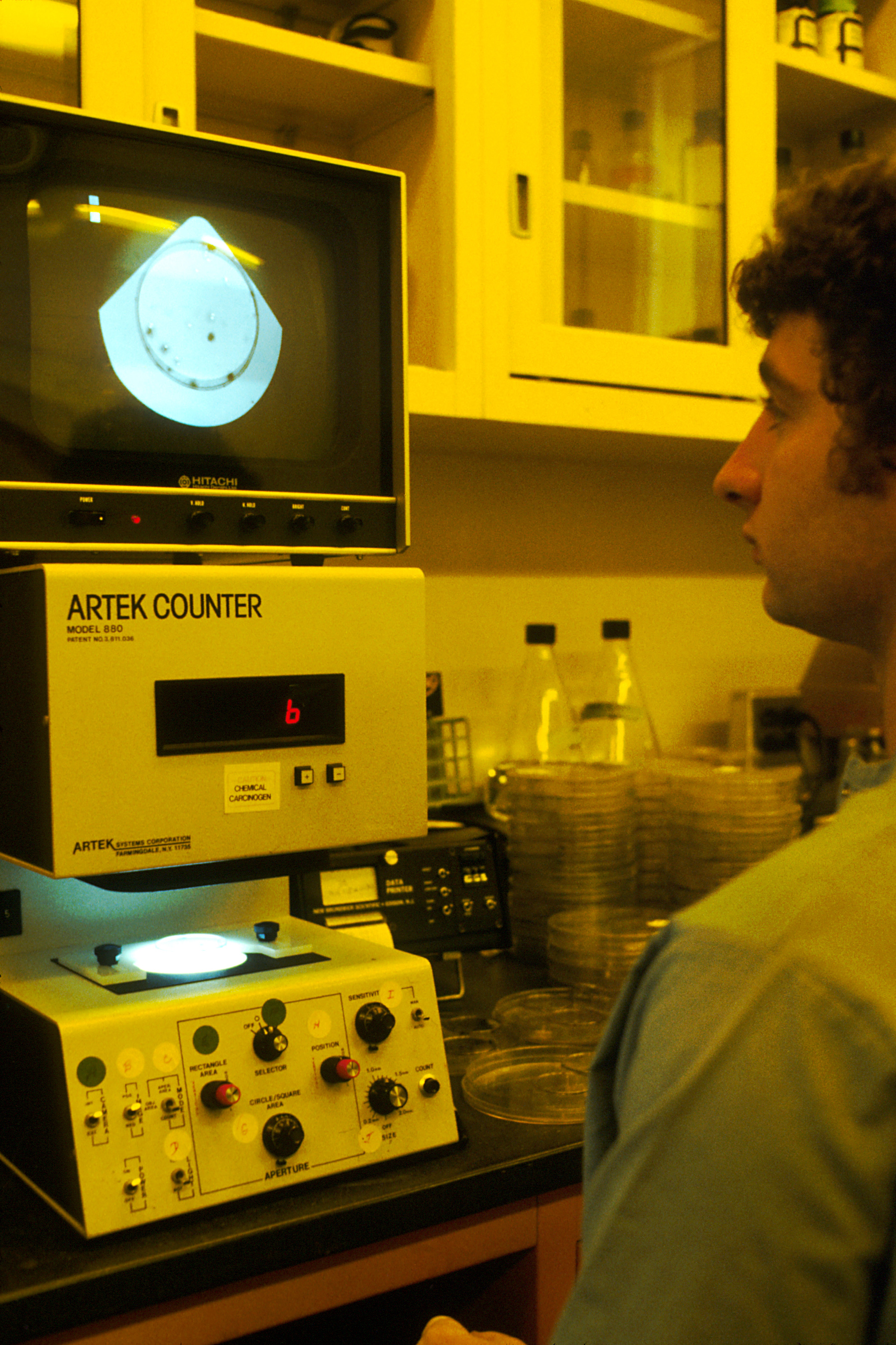 Pictured is a researcher seated in front of a scintillation counter. This device measures radioactivity incorporated into a cell culture. The researcher is looking up at the screen.